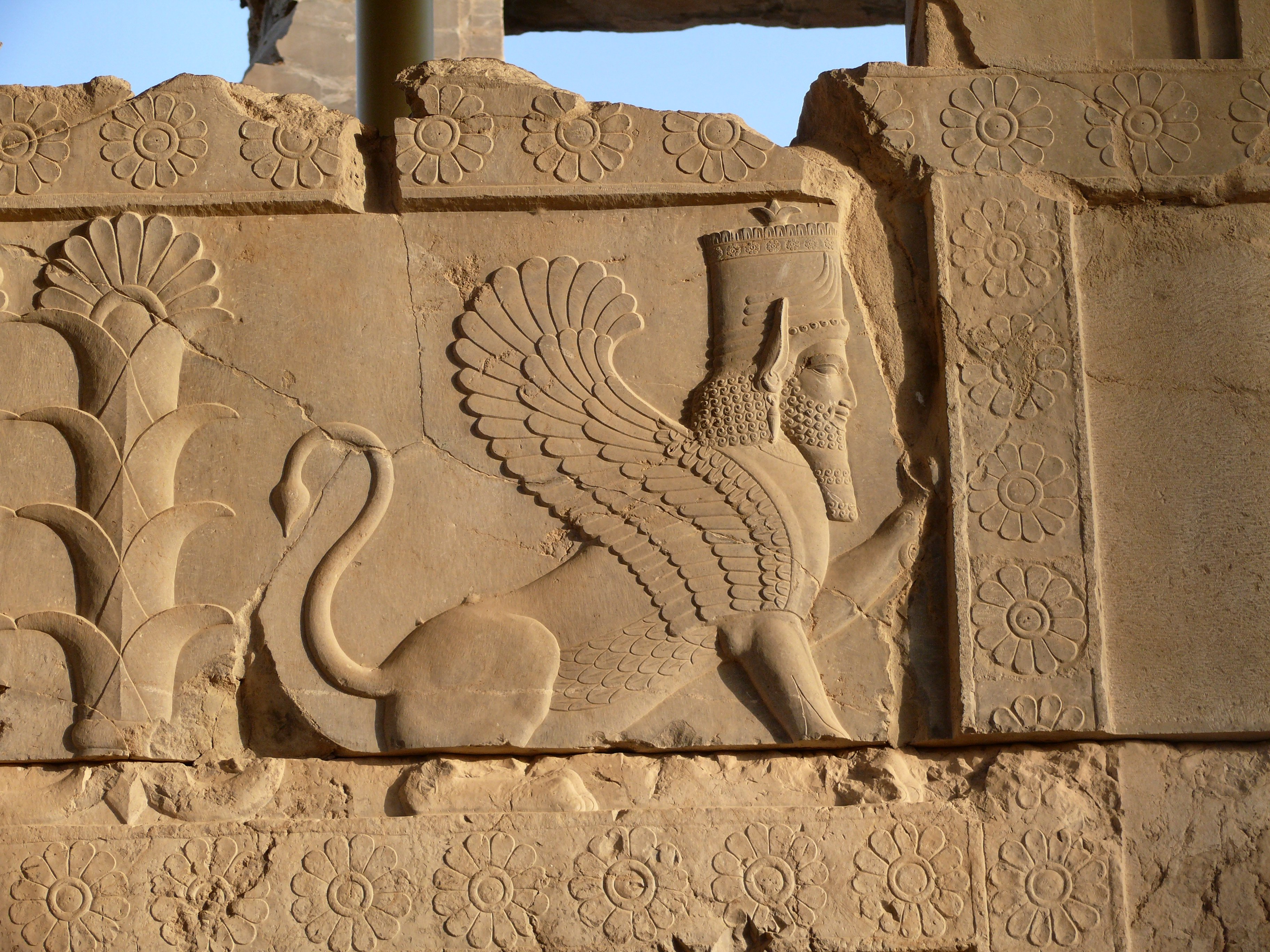 Bas relief showing a sphynx decorating the north wall of the Apadana terrace (Darius the Great's palace) at Persepolis. Taken at Persepolis, city of Marvdasht, Fars province, Iran, April 2008.